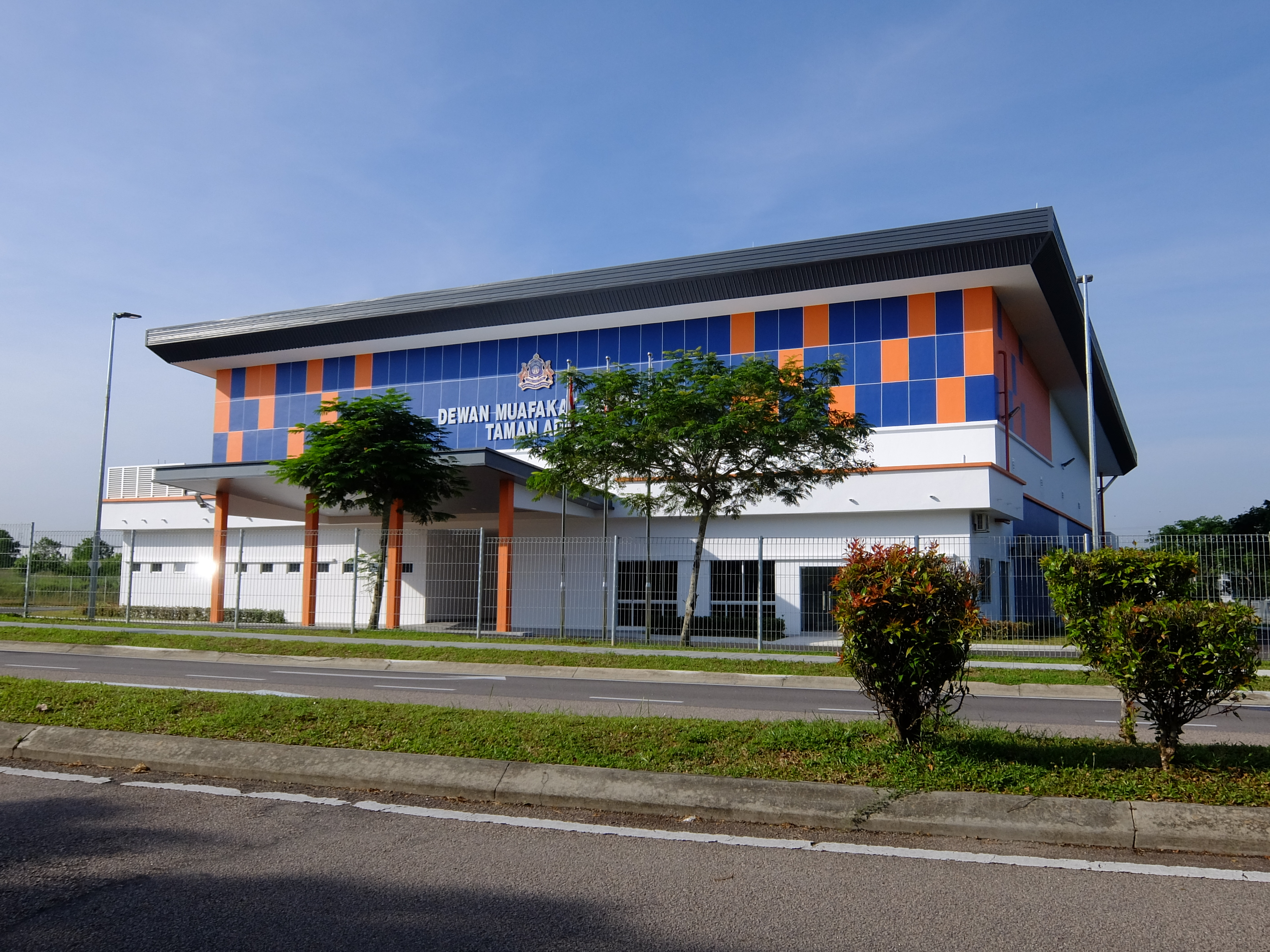 Taman Adda Johor Muafakat Hall, Adda Heights, Johor Bahru, Johor, Malaysia